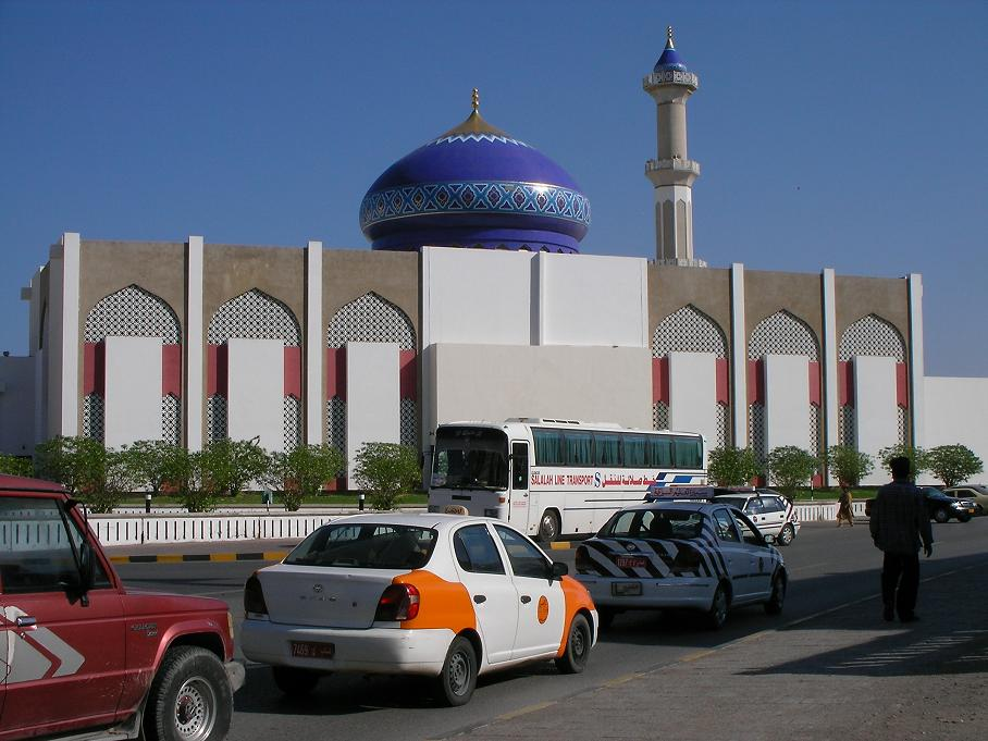 Mosque in Ruwi, a city in Muscat's metropolitan area